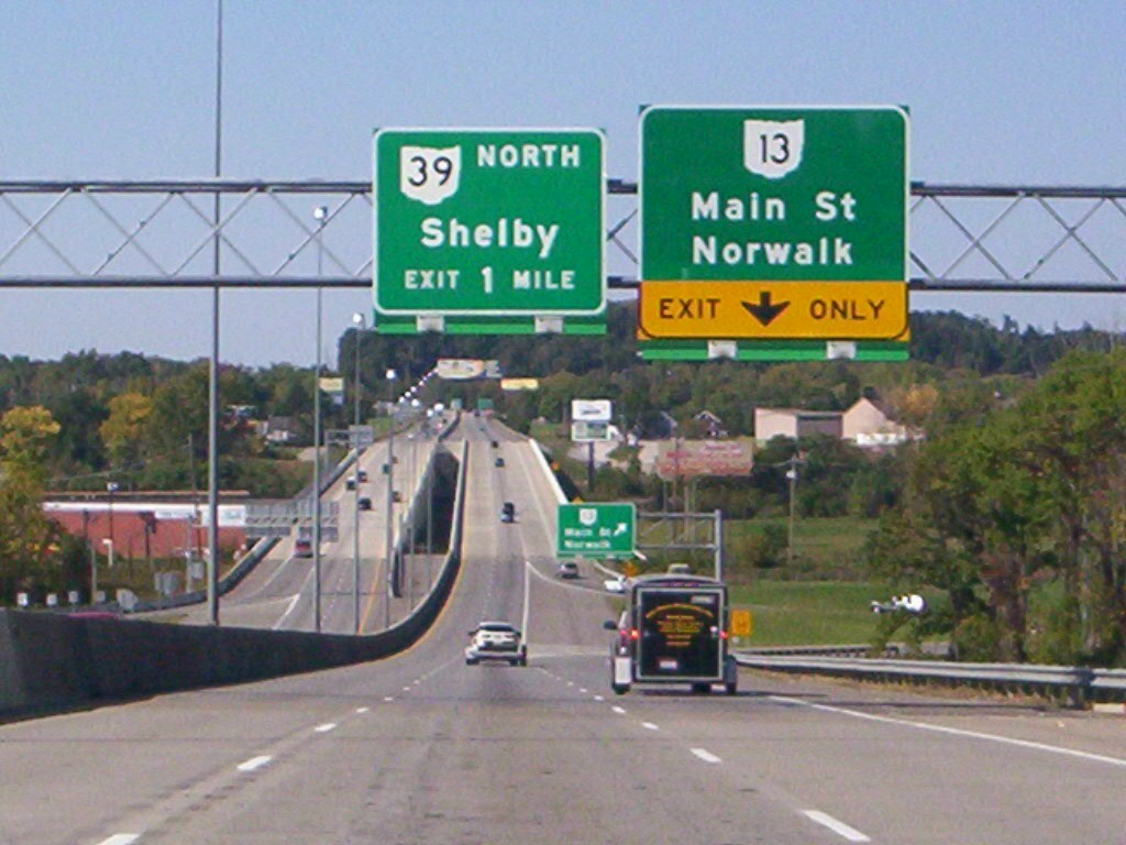 A view of U.S. Route 30 (west) near the Ohio 13 (Main Street) exit in Mansfield, Ohio.